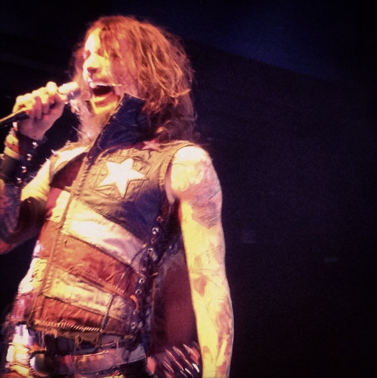 Justin Hawkins performing with The Darkness in Washington, DC in February 2012